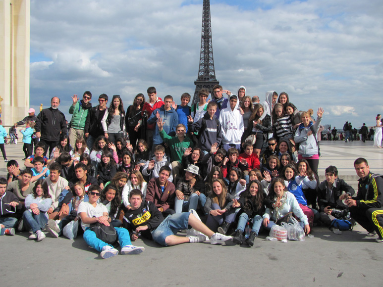 élèves de seconde lors de leur voyage à Paris